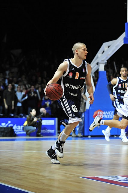 Ben Woodside, basket-ball player.